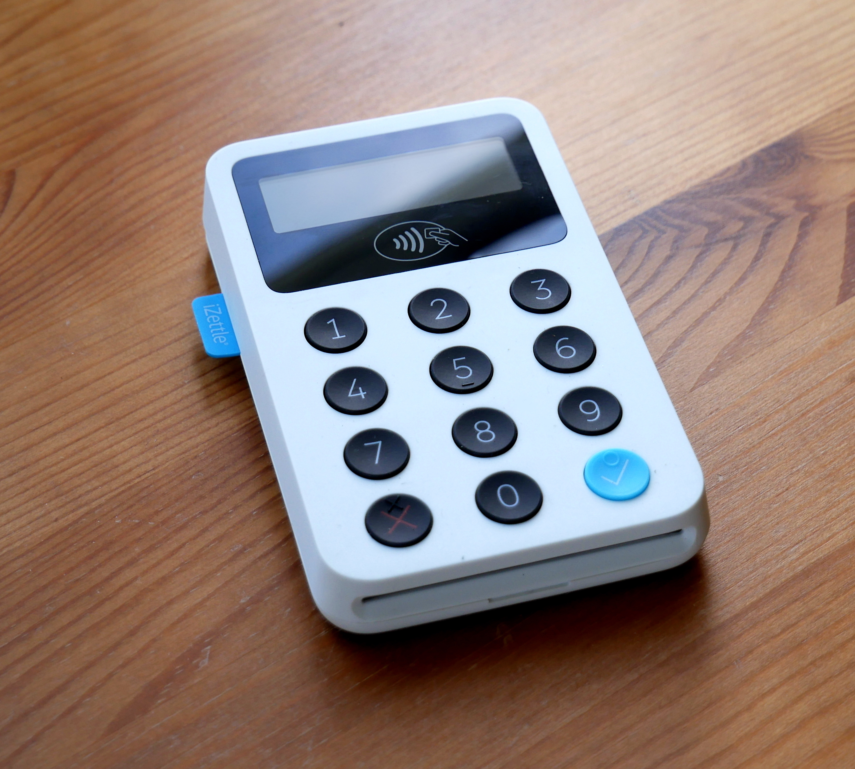 White iZettle reader.